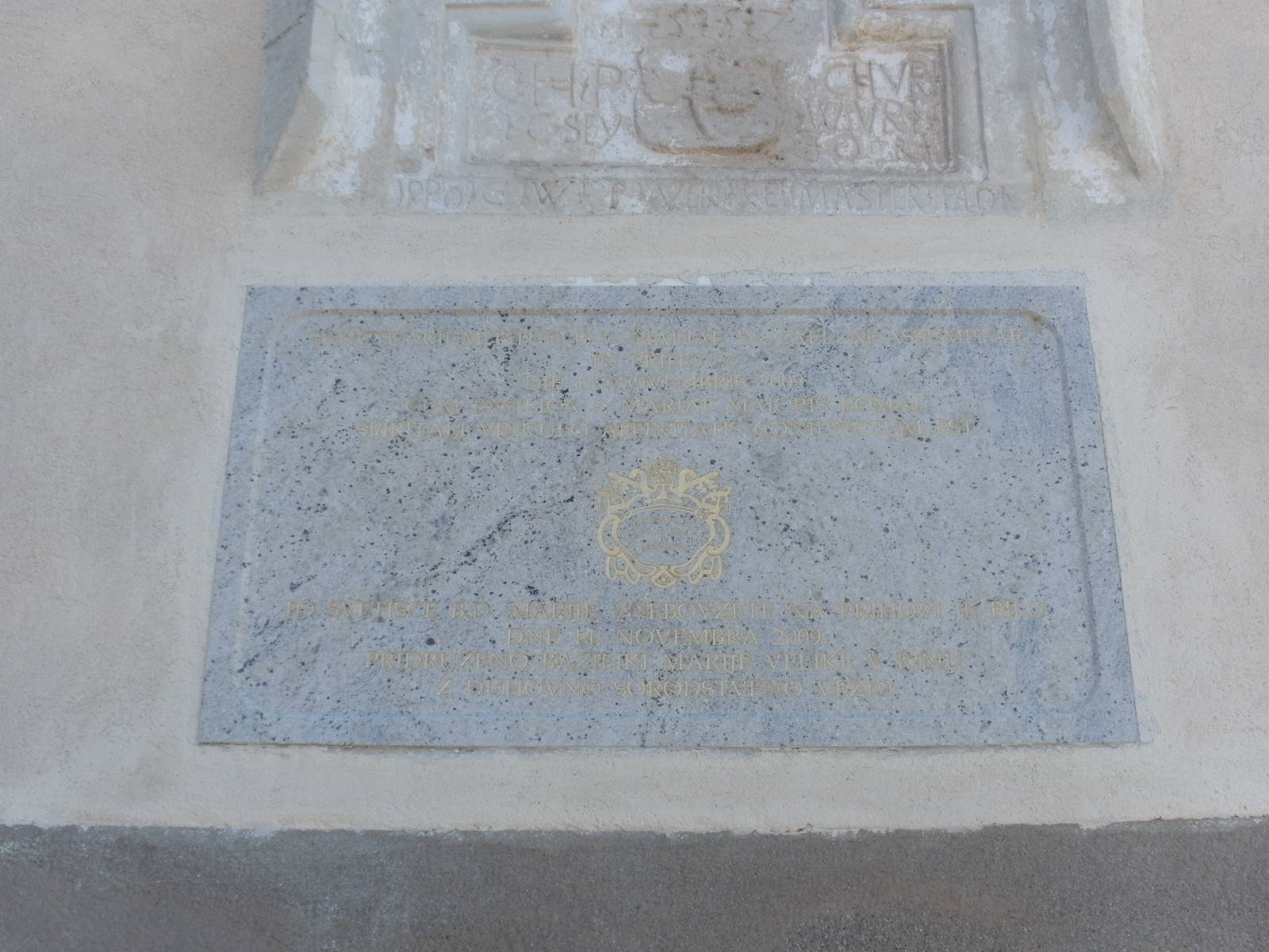 Prihova church, description plate above entrance